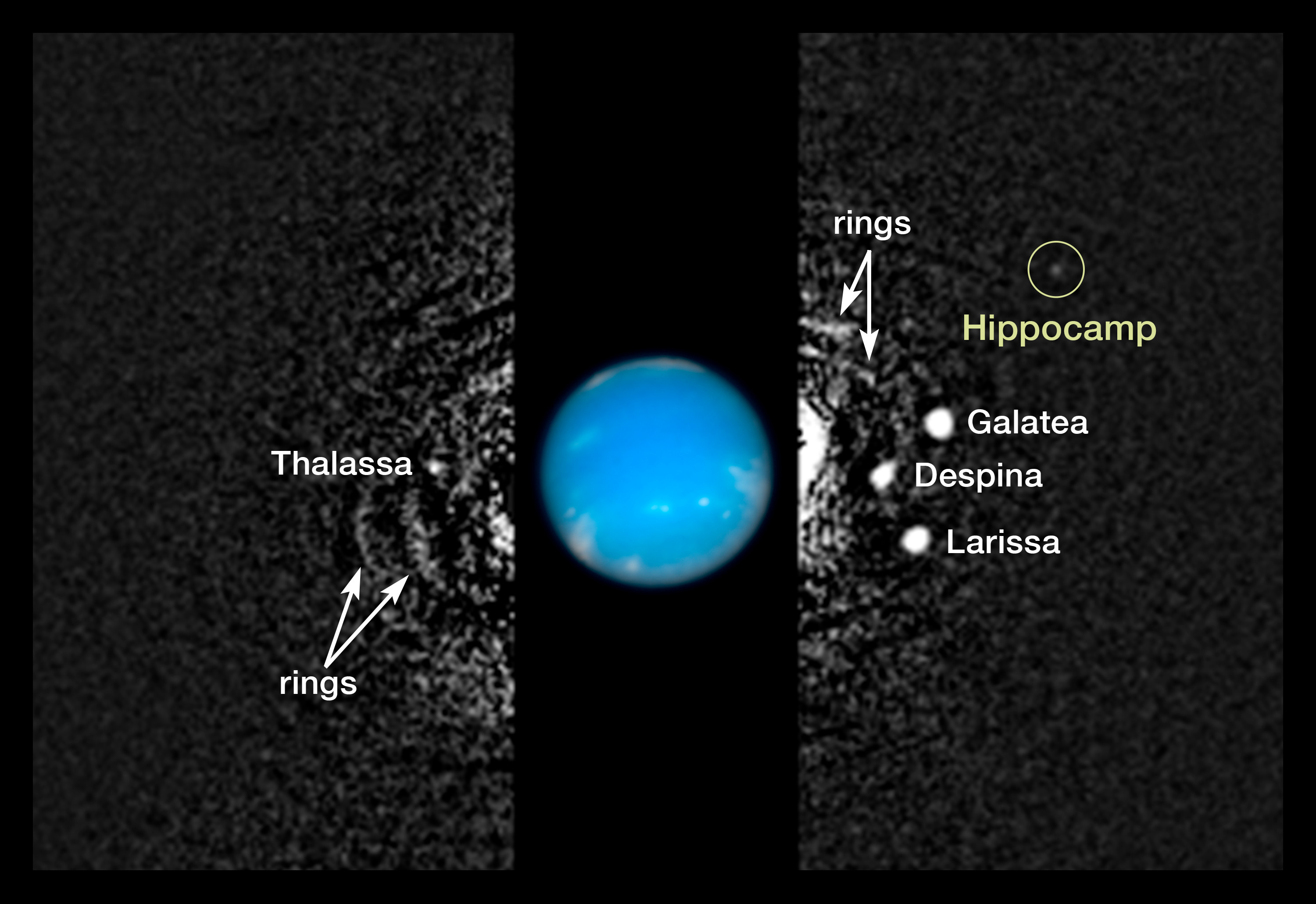 This composite image shows the location of Neptune’s moon Hippocamp, formerly known just as S/2004 N 1, orbiting the giant planet Neptune, about 4.8 billion kilometres from Earth. The moon is only about 34 kilometres in diameter and dim, and was therefore missed by NASA's Voyager 2 spacecraft cameras when the probe flew by Neptune in 1989. Several other moons that were discovered by Voyager appear in this 2009 image, along with a circumplanetary structure known as ring arcs. Mark Showalter of the SETI Institute discovered Hippocamp in July 2013 when analysing over 150 archival images of Neptune taken by Hubble from 2004 to 2009. The black-and-white image was taken in 2009 with Hubble's Wide Field Camera 3 in visible light. Hubble took the colour inset of Neptune on August 19, 2009.